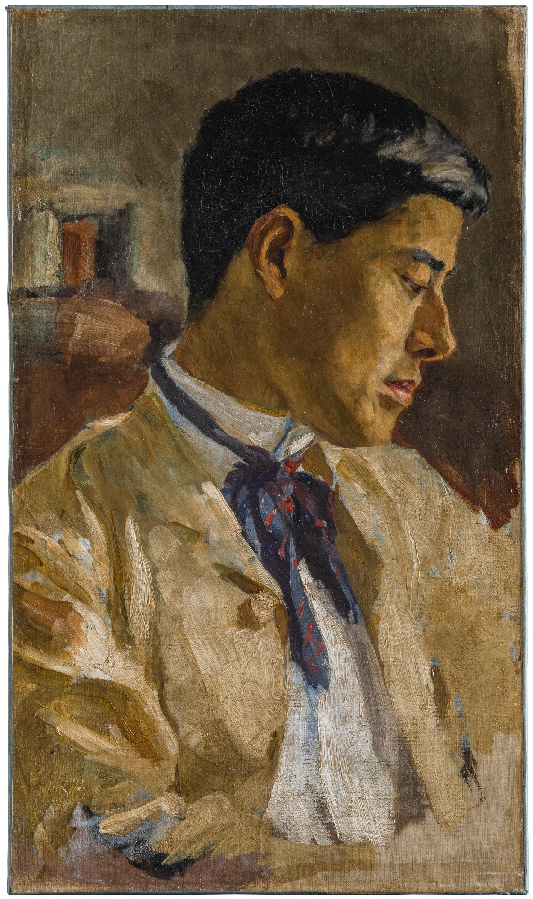 Mr Kume (Kume Keiichiro), by Kuroda Seiki, Kuroda Kinenkan